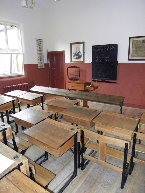 Replica Victorian Classroom, Queen Street School. Situated in the newly restored Queen Street school 1143366 this is a replica of a classroom of c1890.